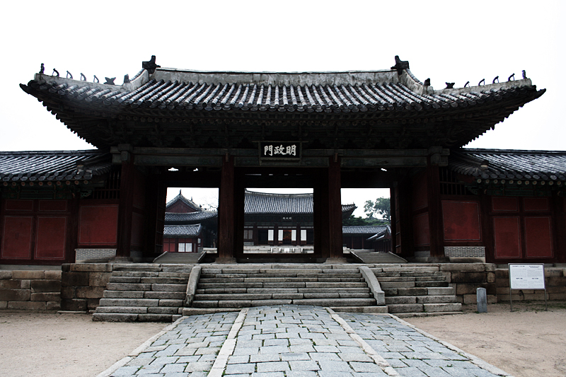 The main gate of Changgyeonggung Palace.